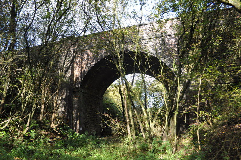 Tilton on the Hill Railway Bridge, near to Halstead, Leicestershire, Great Britain. The small station on the Great Northern, London and North Western Joint line was just ahead after the bridge. It opened in 1879 and closed in 1953. Link The SSSI Tilton cutting reserve is behind me.